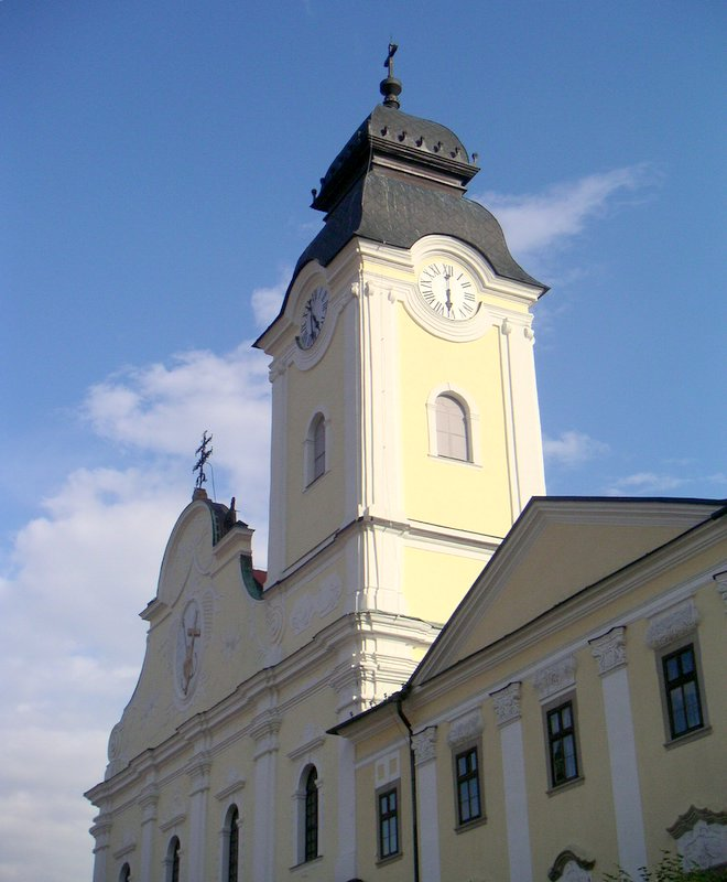 Tower of the Church of the Holy Spirit, Levoca. I took this picture.